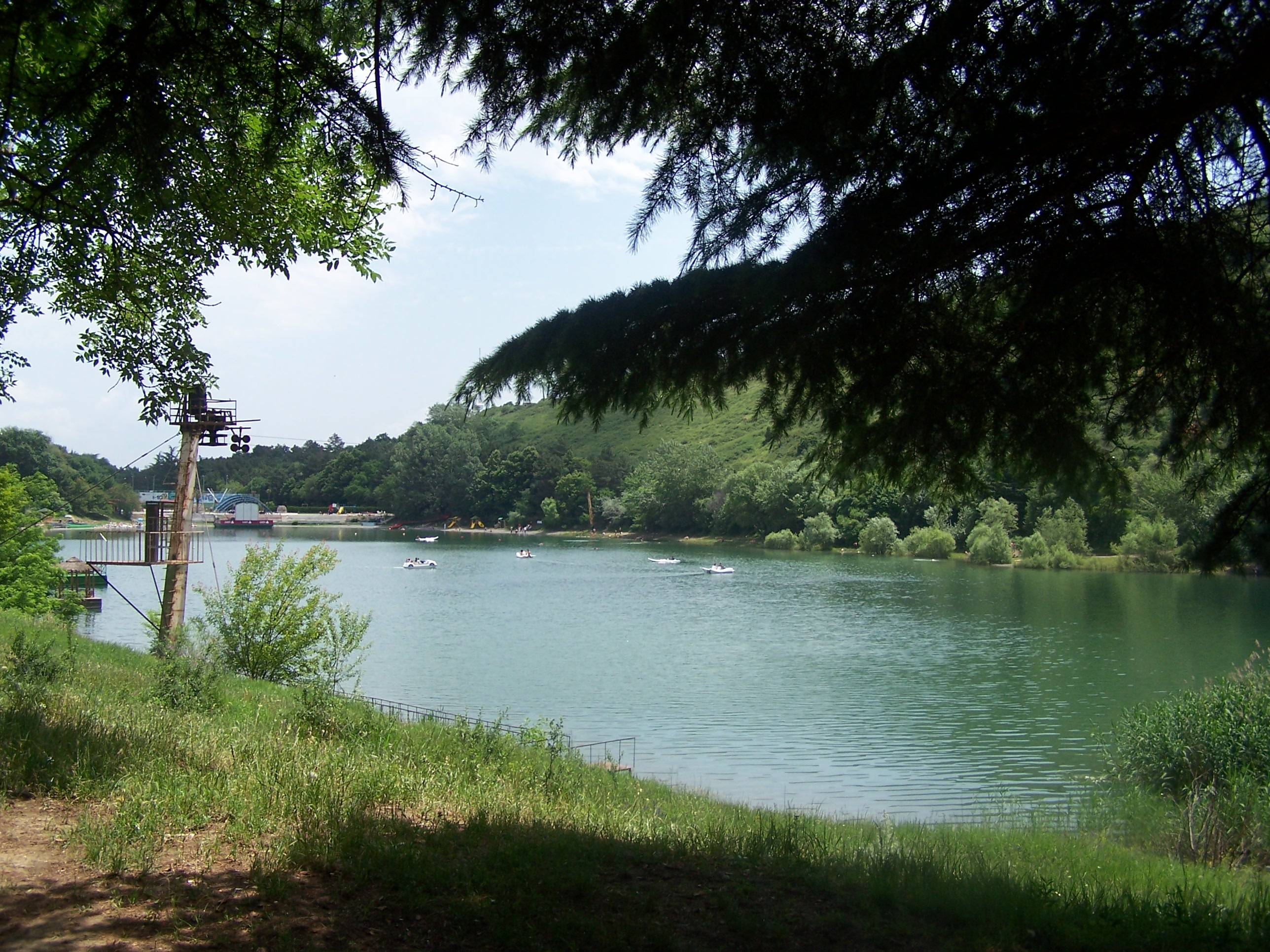 Recreational Lake